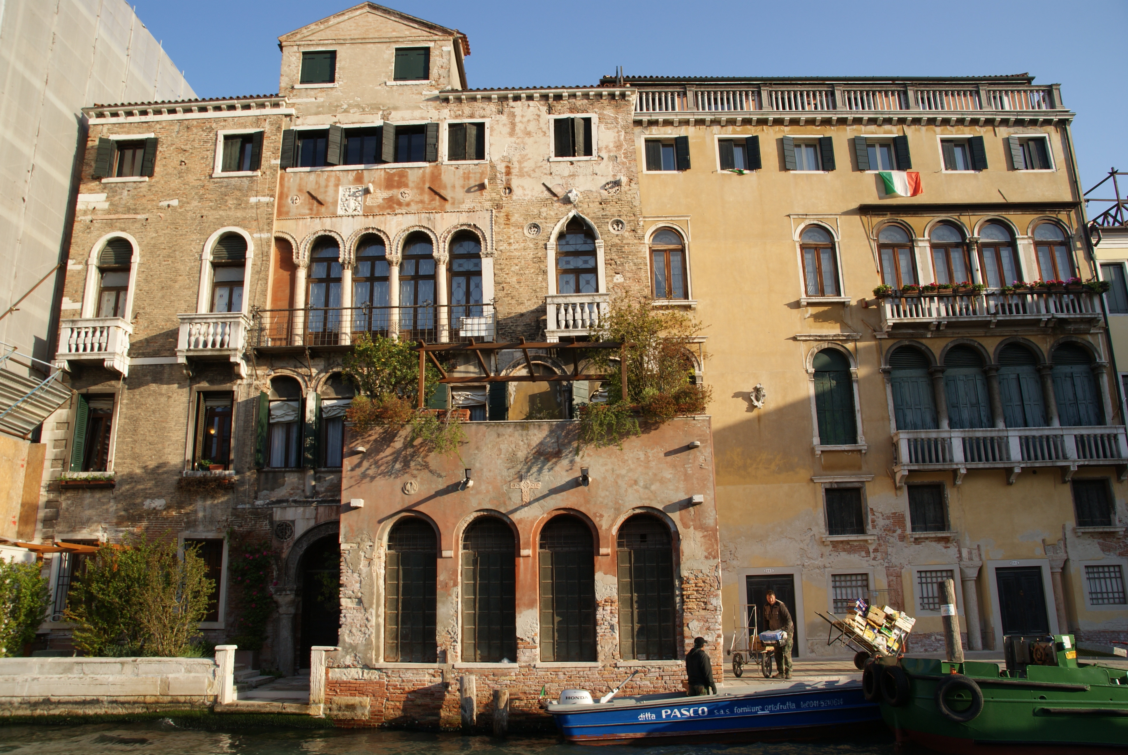 Palazzo Barzizza and Palazzo Avogadro, San Polo, Venice Palazzo Barzizza, San Polo, Venedig